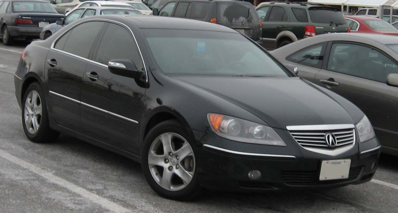 2005-2007 Acura RL photographed in USA.